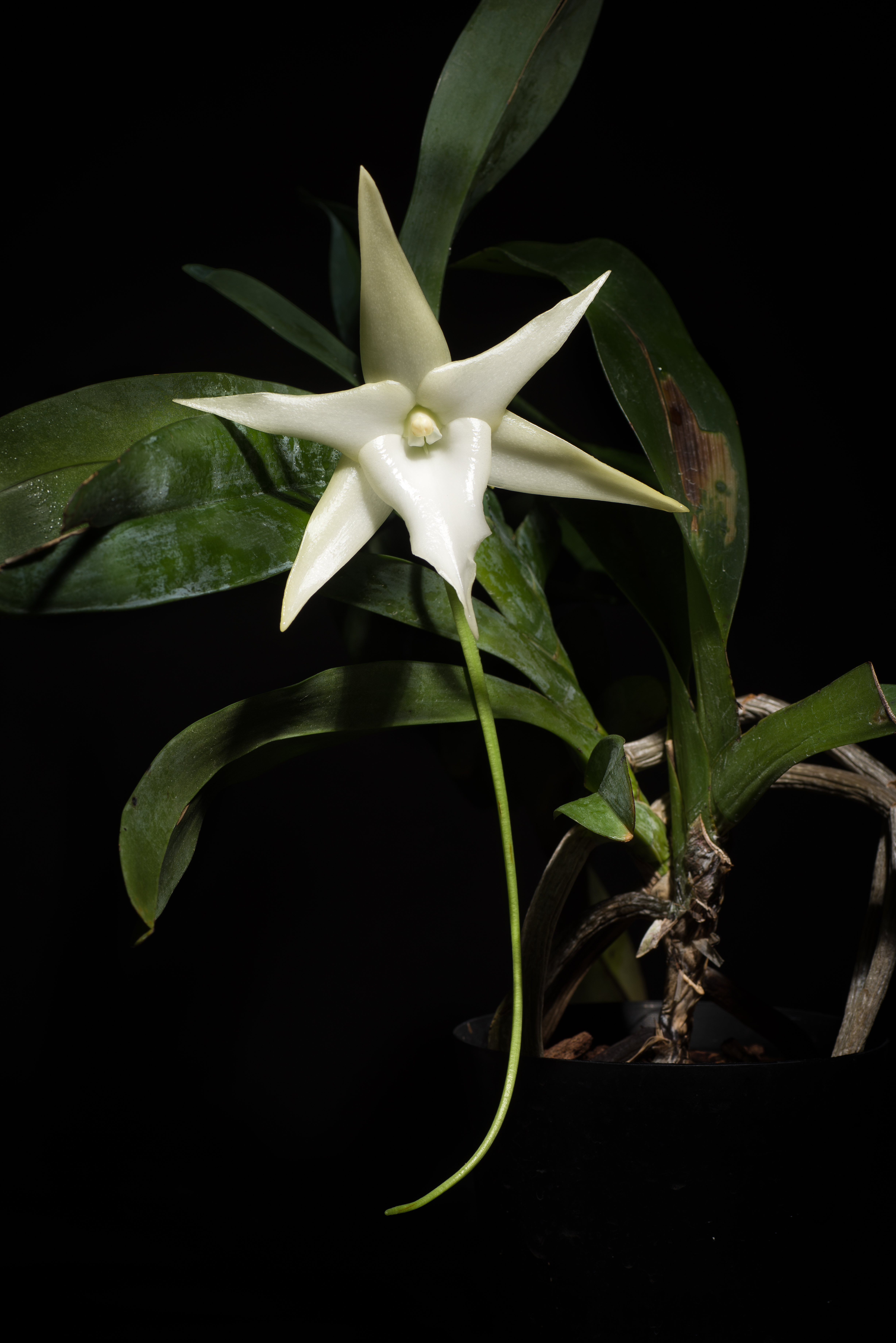 SECTION Angraecum Distribution: E. & SE. Madagascar (29 MDG) Homotypic Synonyms: Aeranthes sesquipedalis (Thouars) Lindl., Bot. Reg. 10: t. 817 (1824). Macroplectrum sesquipedale (Thouars) Pfitzer in H.G.A.Engler & K.A.E.Prantl (eds.), Nat. Pflanzenfam. 2(6): 234 (1889). Angorchis sesquepedalis (Thouars) Kuntze, Revis. Gen. Pl. 2: 652 (1891). Mystacidium sesquipedale (Thouars) Rolfe, Orchid Rev. 12: 47 (1904).